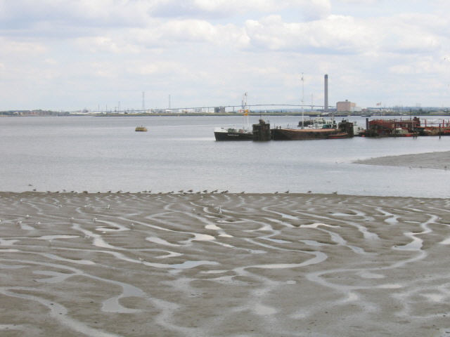 mudflats at Erith. mudflats north-west of Erith town centre, on the ebb tide, with a distant view of the QE2 bridge at Dartford.